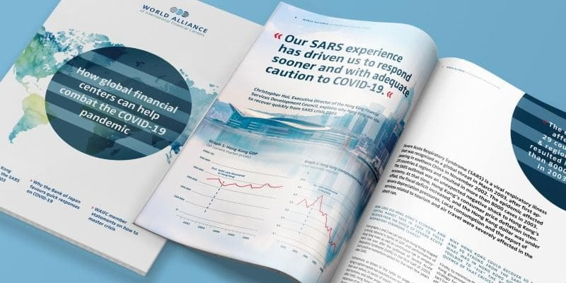 WAIFC Research and Publications.